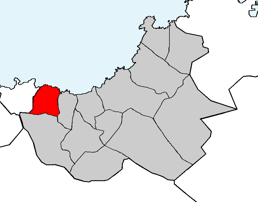 Location of the parish of Sorrizo in the municipality of Arteixo (Galicia, Spain)